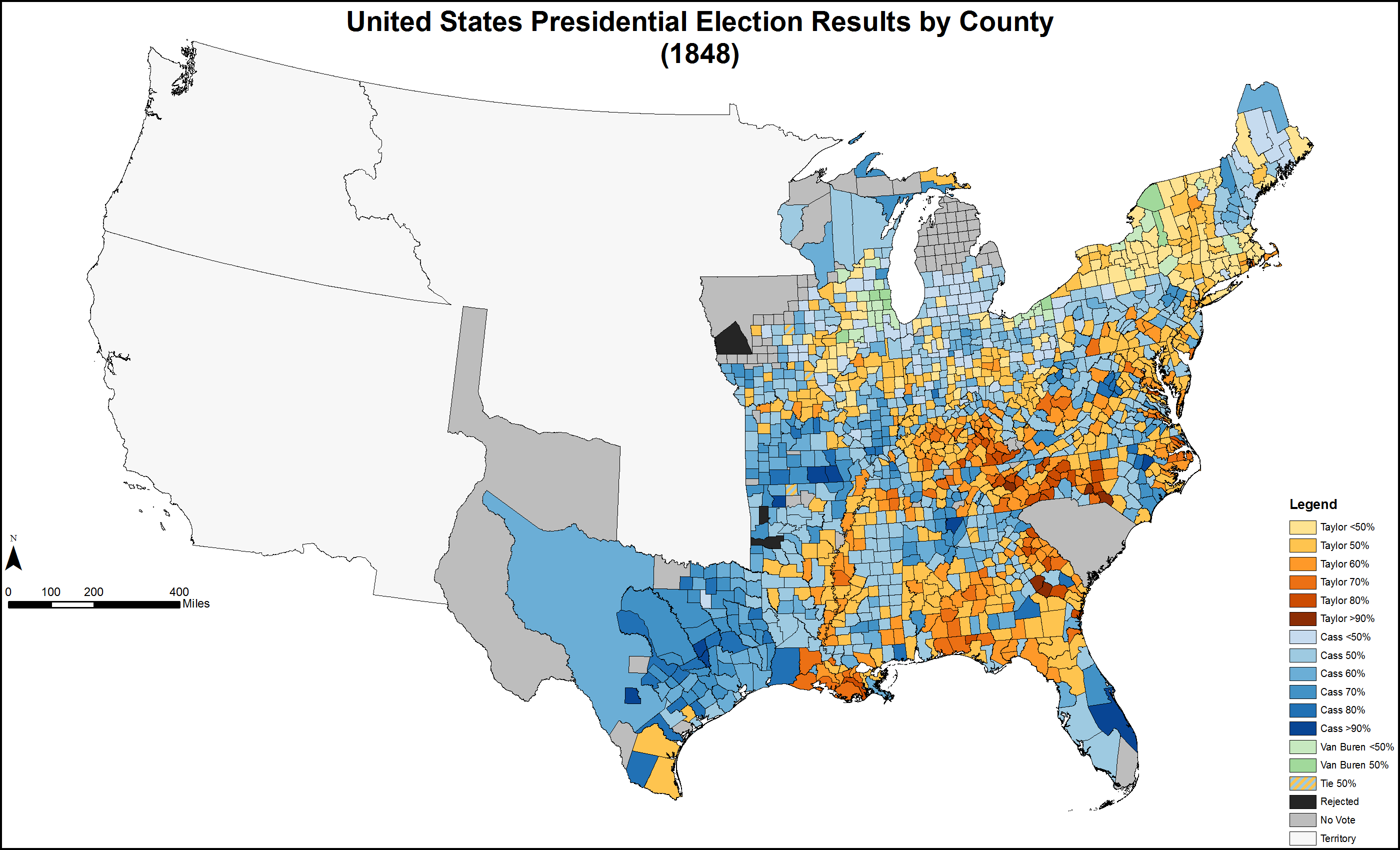 Presidential election results by county (1848). Colors based on Colorbrewer 2.0.